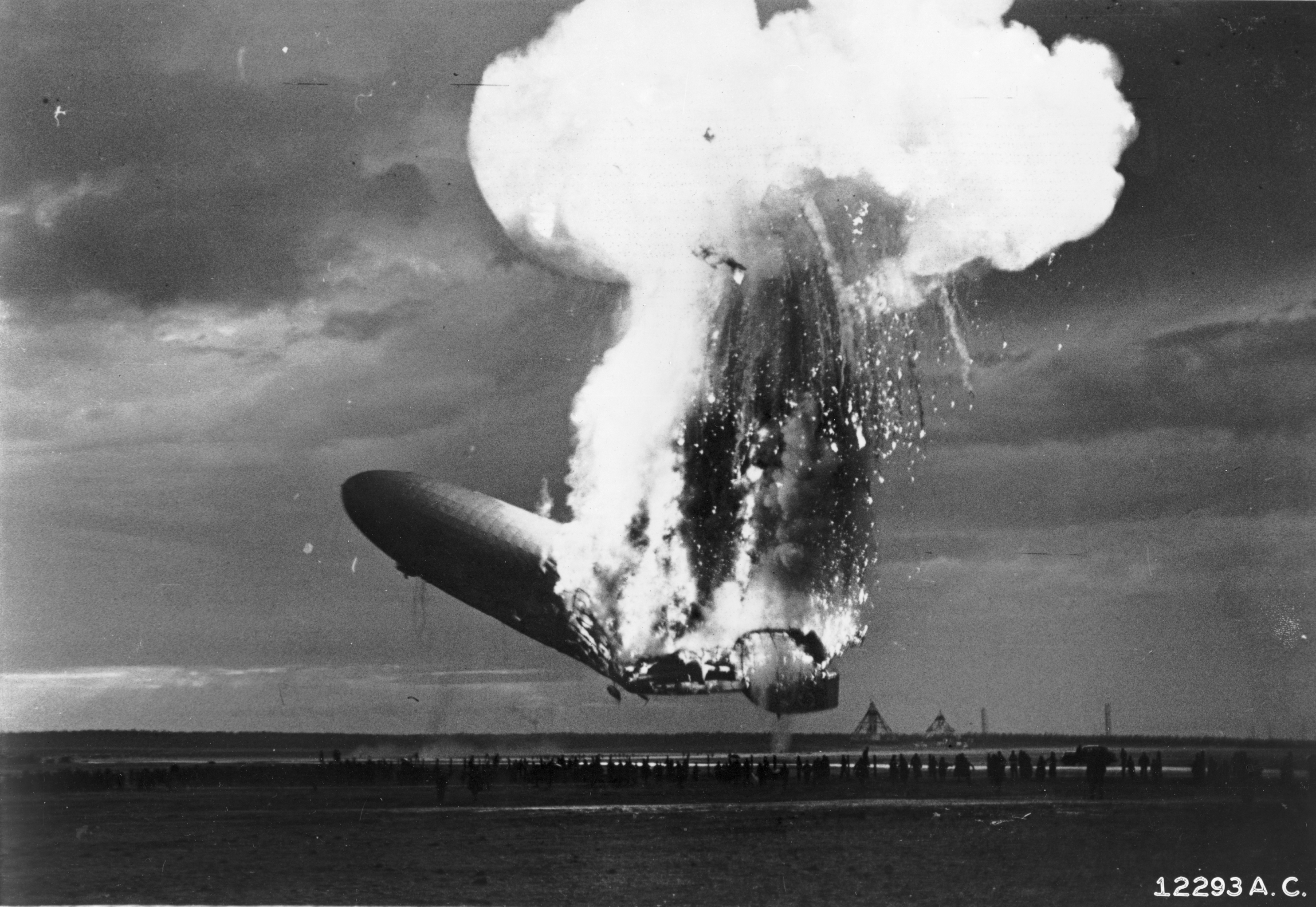 Left side view of German airship Zeppelin LZ 129 "Hindenburg" burning at Lakehurst, New Jersey, 6 May 1937; the disaster occured while the airship was landing. In this photo, the rear half of the ship is on fire but the ship is still above the ground; nose is pitched sharply upwards.